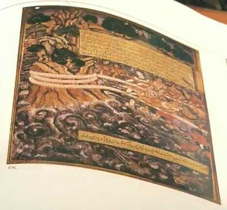 Episode of Bala kanda